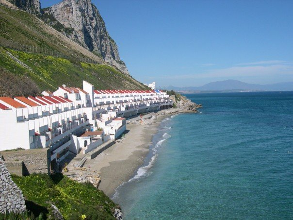 View of Sandy Bay, Gibraltar looking north towards Spain's Costa del Sol